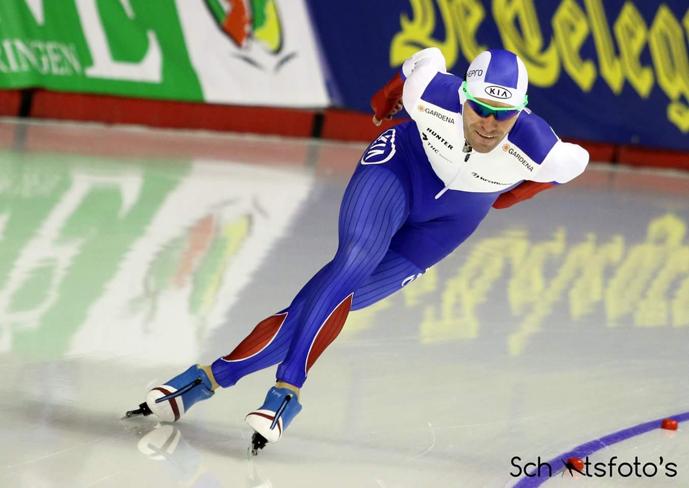 Evgeny Seryaev